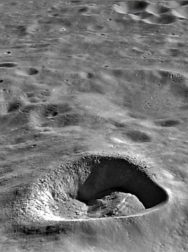 Ryder lunar crater - Kaguya High Definition TV image from JAXA/NHK - courtesy of Motomaro Shirao, Japan.